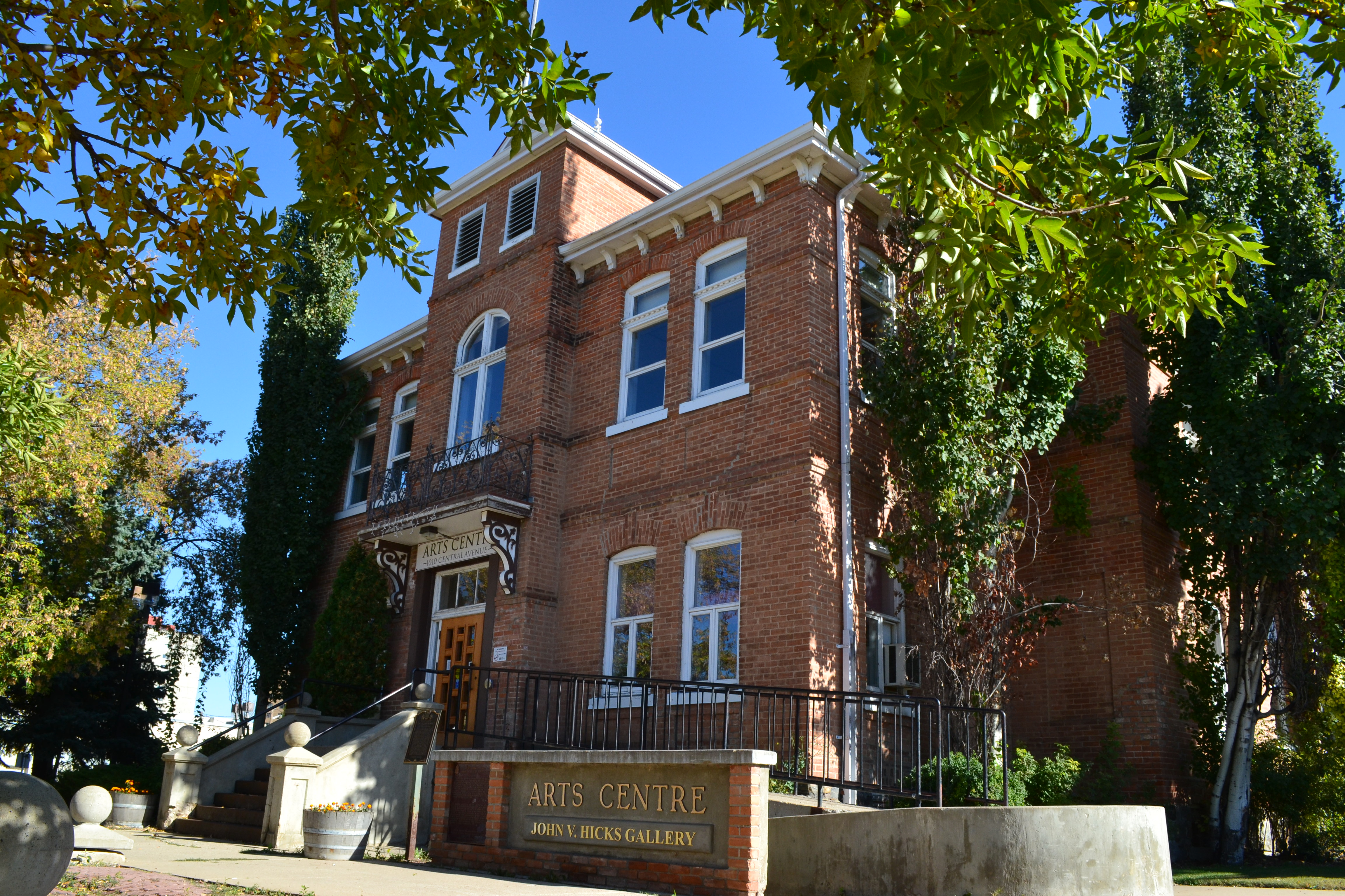 Prince Albert and District is rich in recreation and leisure opportunities. Our abundant city parks include Prime Ministers Park, Pehonan Parkway, and the beautiful 1500 lakes that make up Prince Albert National Park. During the winter months, the City of Prince Albert and District come alive with fun-filled activities for the entire family! Cross-country skiing, snowboarding, snowshoeing, and winter hiking are some of the activities you can experience when you visit Little Red River Park, Prince Albert's playground areas, or any of our Lakeland areas. Fall and winter give way to spring and summer.... Prince Albert's farmers market, downtown street fair, retail shopping, exhibitions, rodeos, and the best golfing around - we have it all! With endless adventure possibilities within an hour from Prince Albert, there isn't another City and District like us!